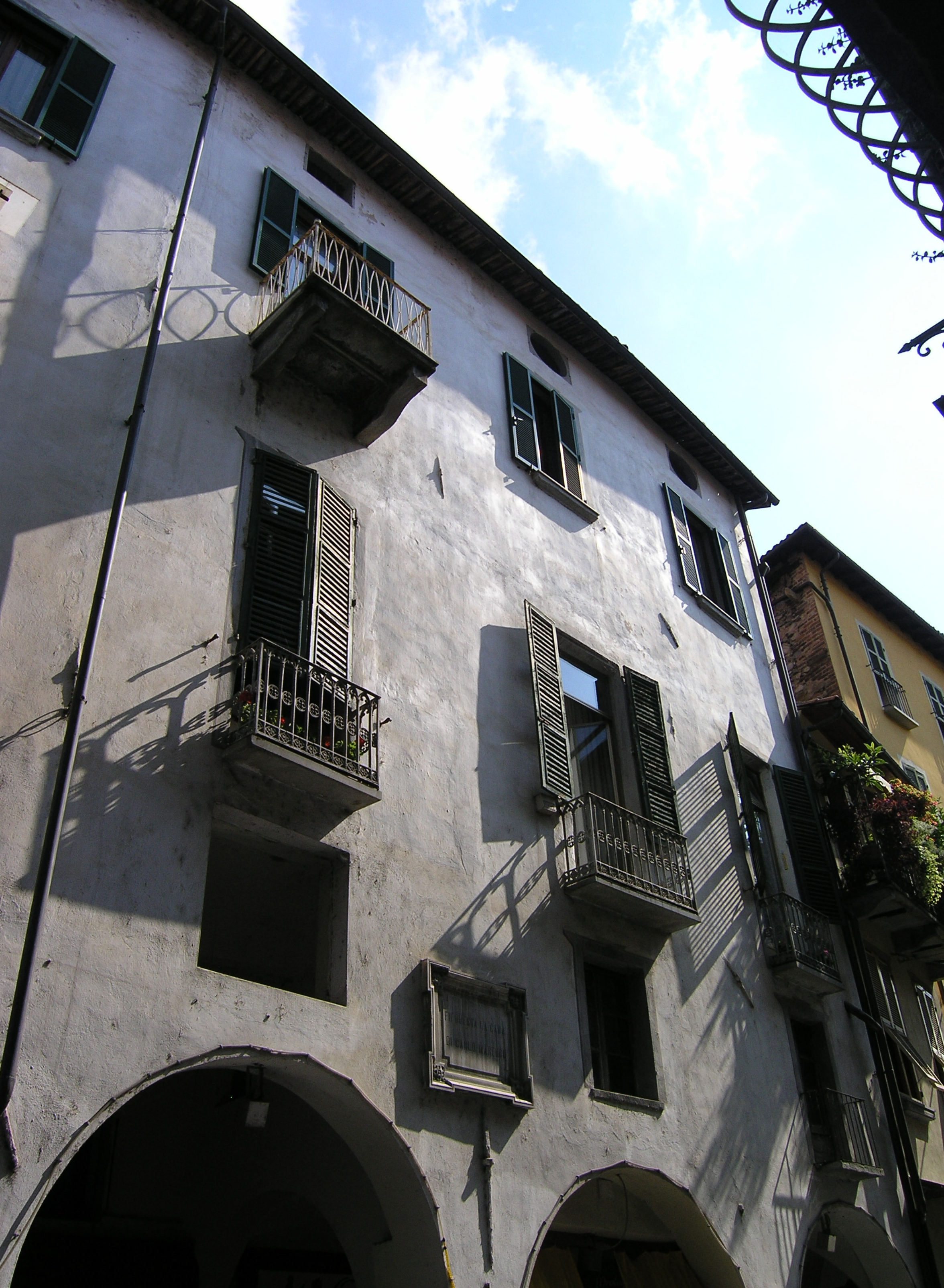 Home of Carlo Marenco, in Ceva, Piedmont, Italy.